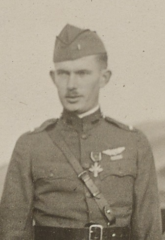 F. E. Kindley - image taken at the citation ceremony in july 1918, Toul, France.